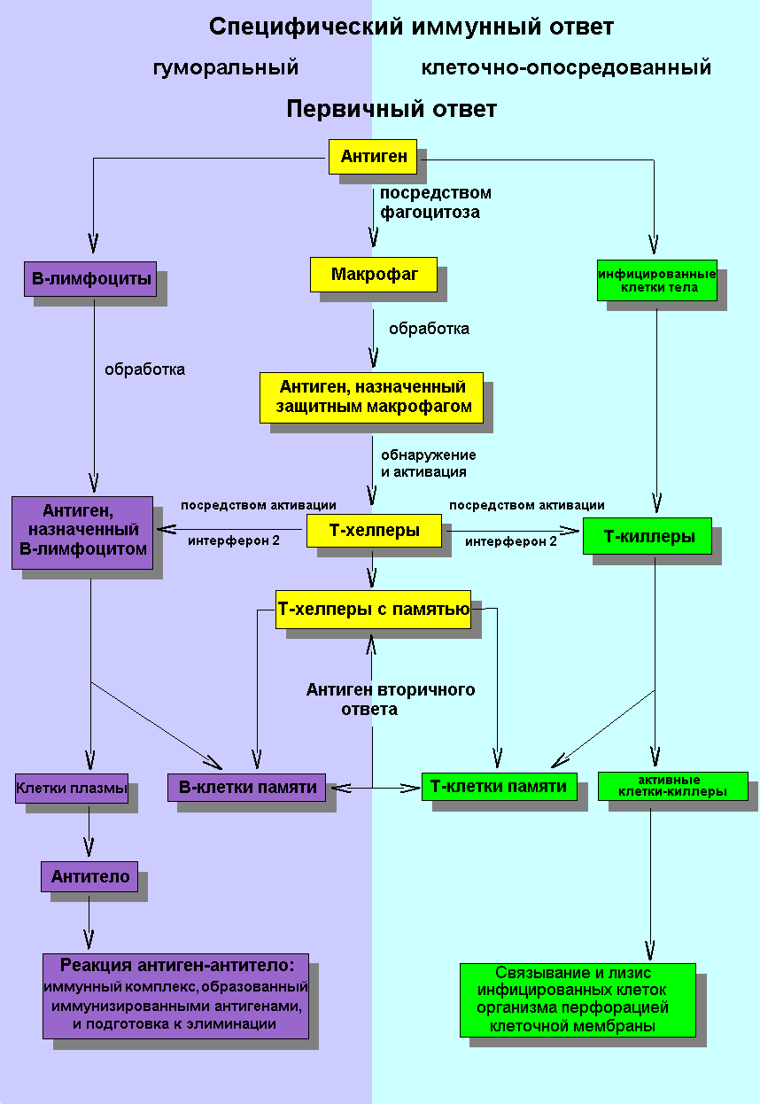 Specific immune response